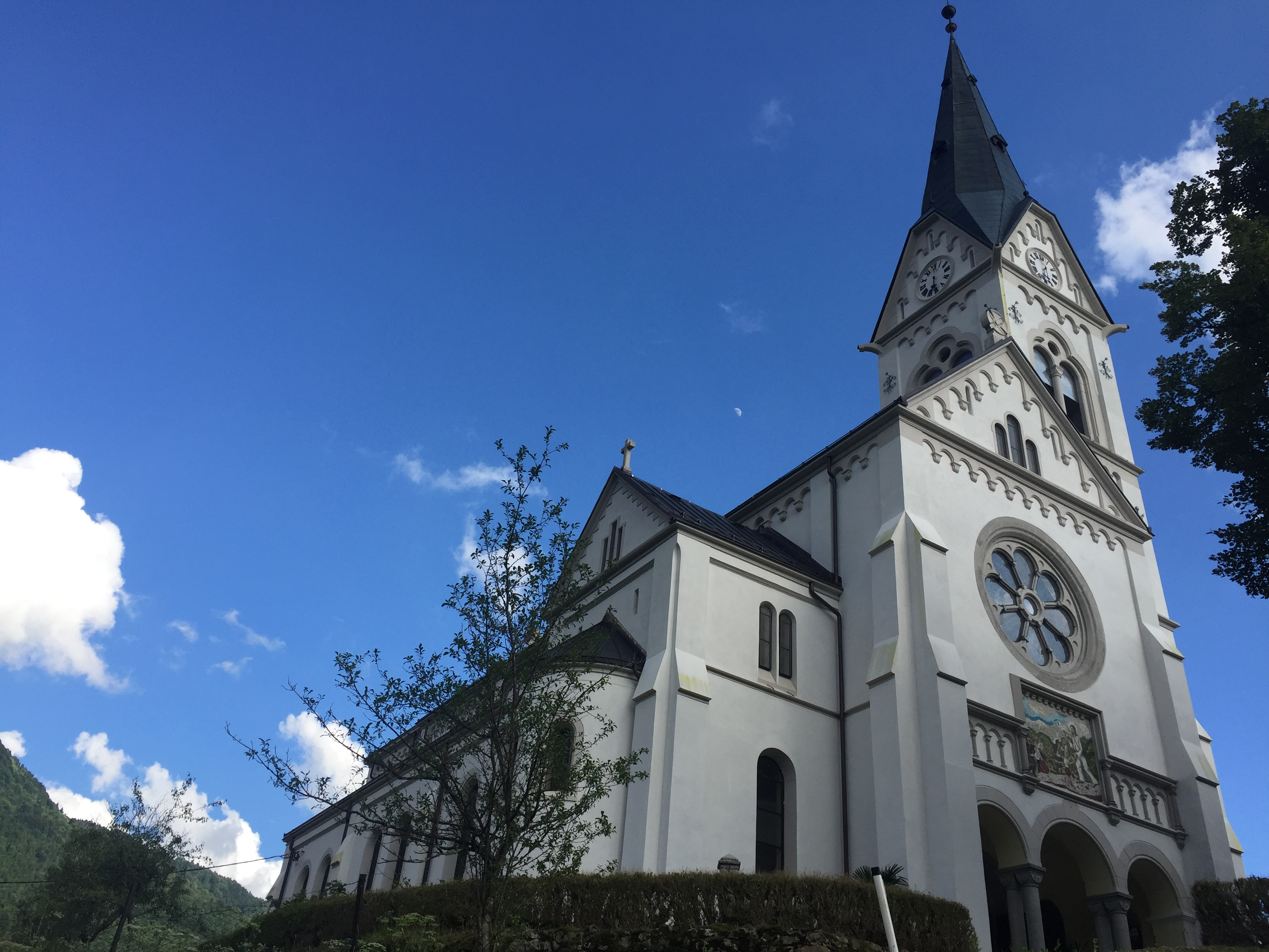 View of the parish church of the sacred heart of Jesus. Drežnica, Kobarid, Slovenia.